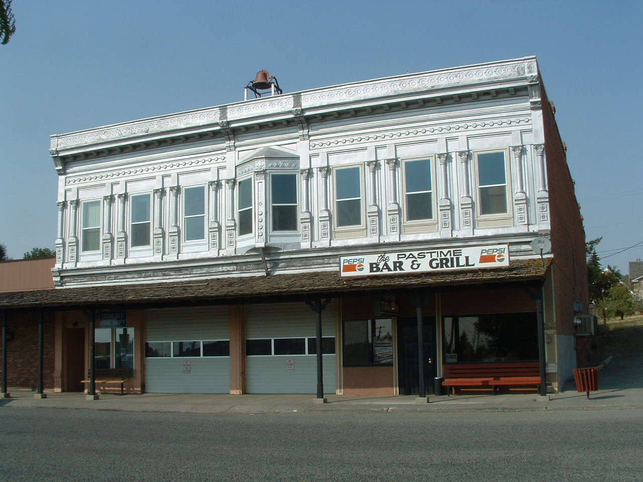 Vollmer Building is presently used by the Genesee Fire Department and a Bar and Grill. It is not clear if the upper floor is in use. A fire bell has been installed on the front parapet.